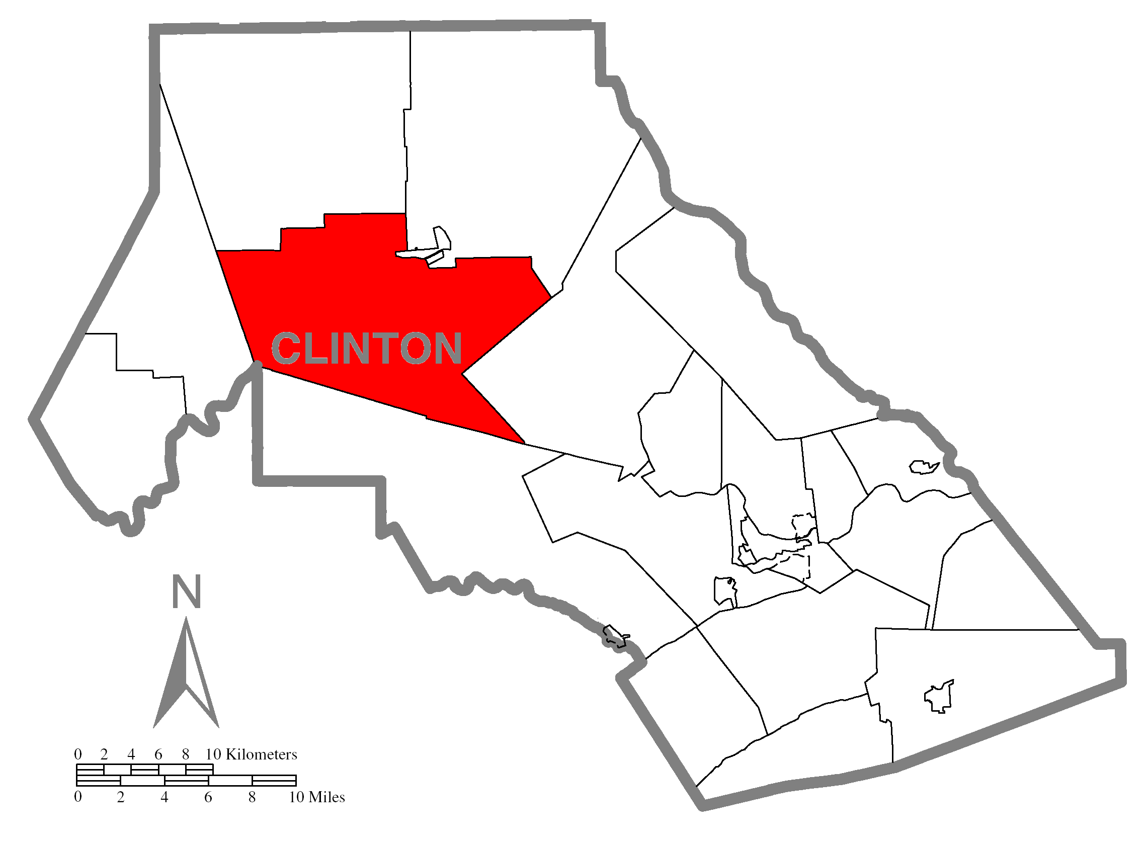 A map of Clinton County showing Noyes Township, Pennsylvania (alternate) highlighted on the map.